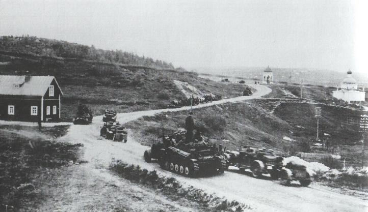 A column from I./Panzer-Abt.z.b.V.40 during the avance on Murmansk, 1941.